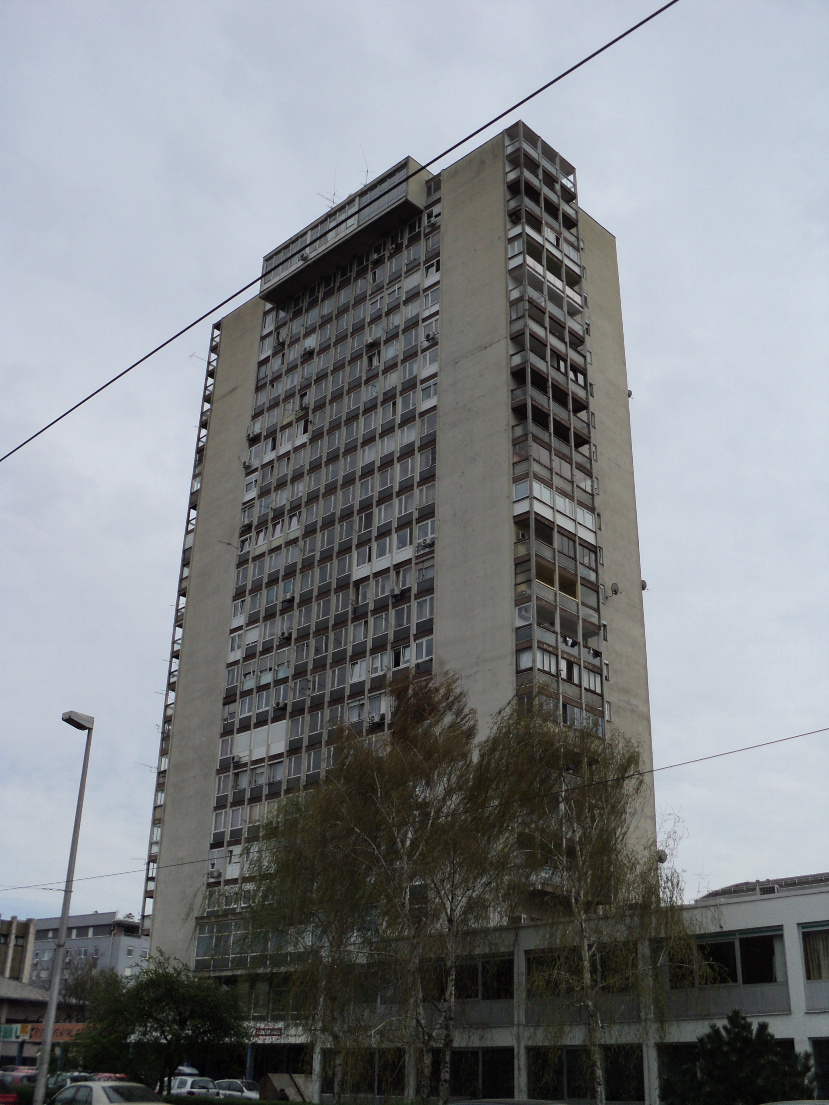 Skyscraper in Trešnjevka, Zagreb, colloquially known as Trešnjevka beauty.